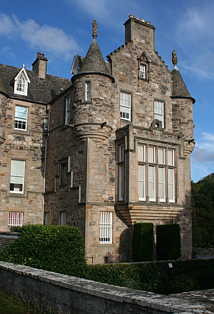 West Tower, Cullen House.